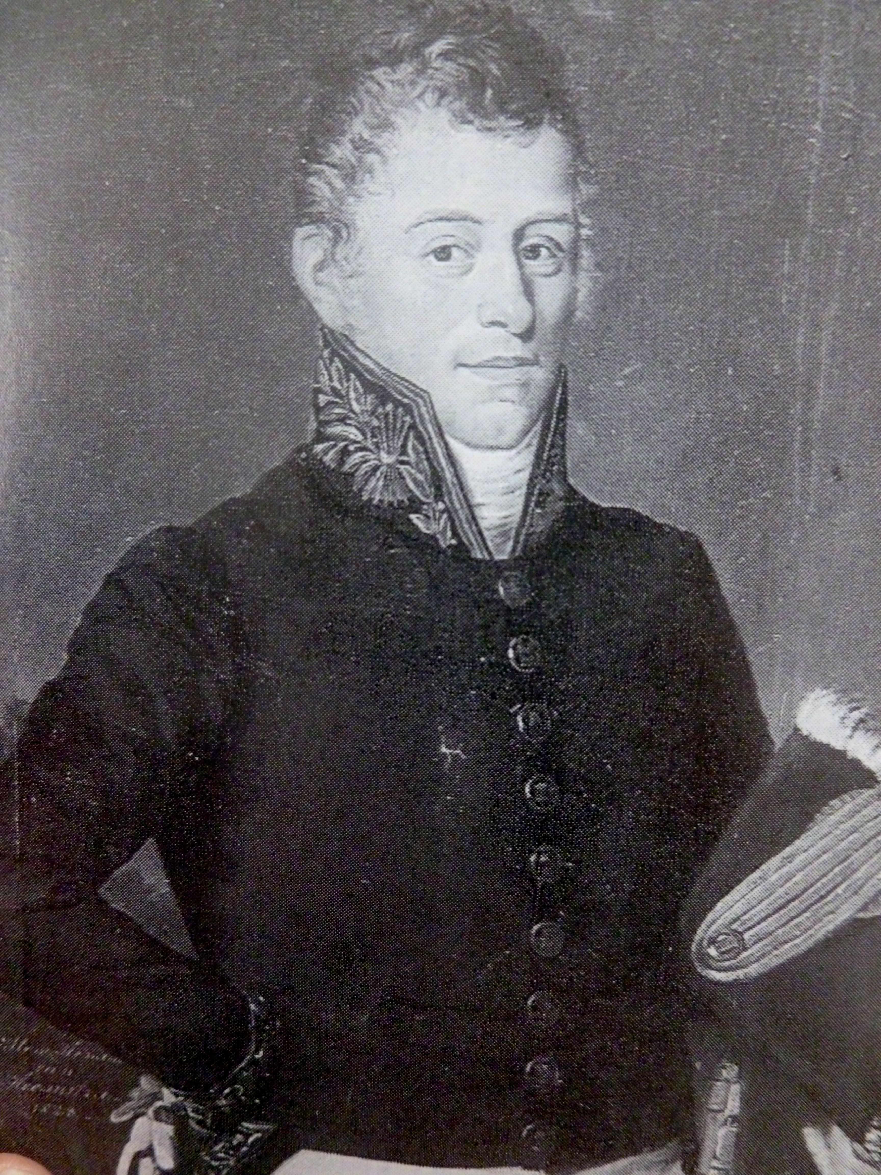 Willem Hindrik Scheltes baron van Heemstra (1779-1826)